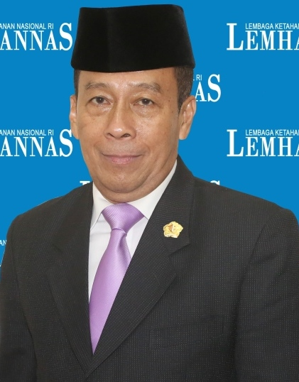 Agus_Widjojo as Governor of Indonesia National Security Agency